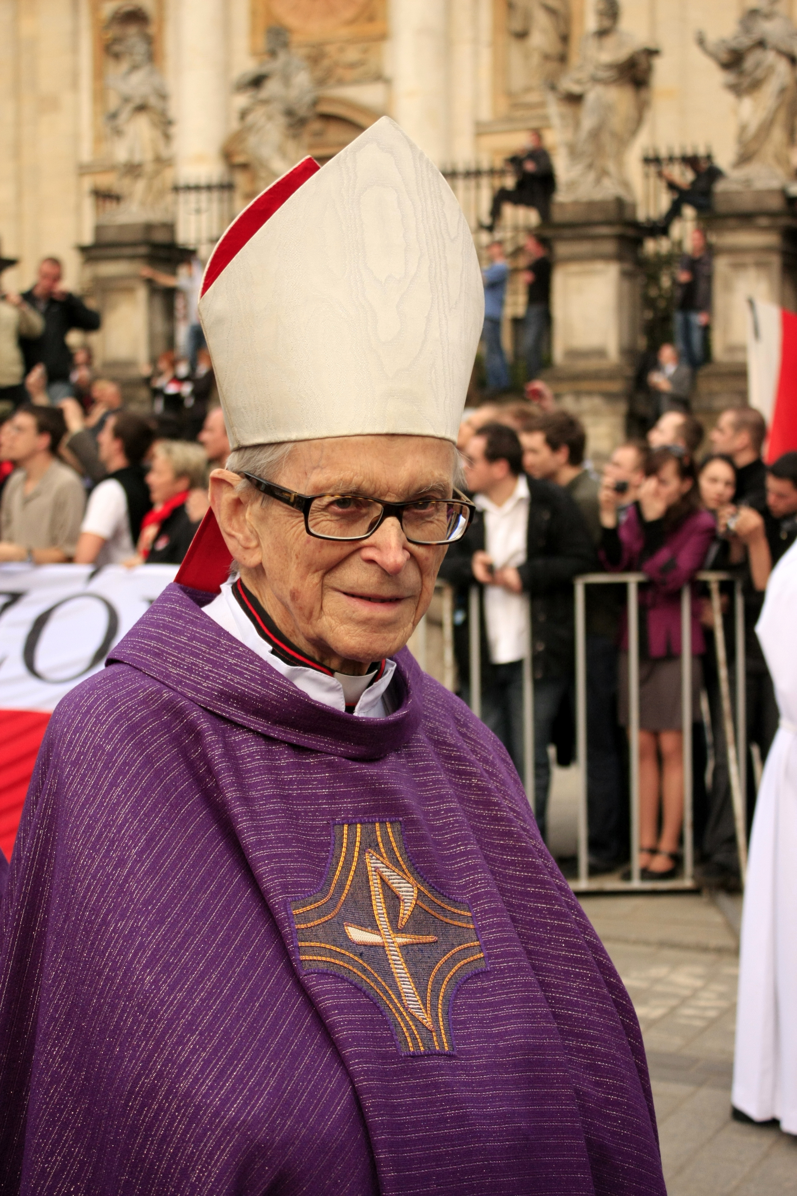 Cardinal Franciszek Macharski, Archbishop Emeritus of Kraków, attending President Lech Kaczyński's funeral.